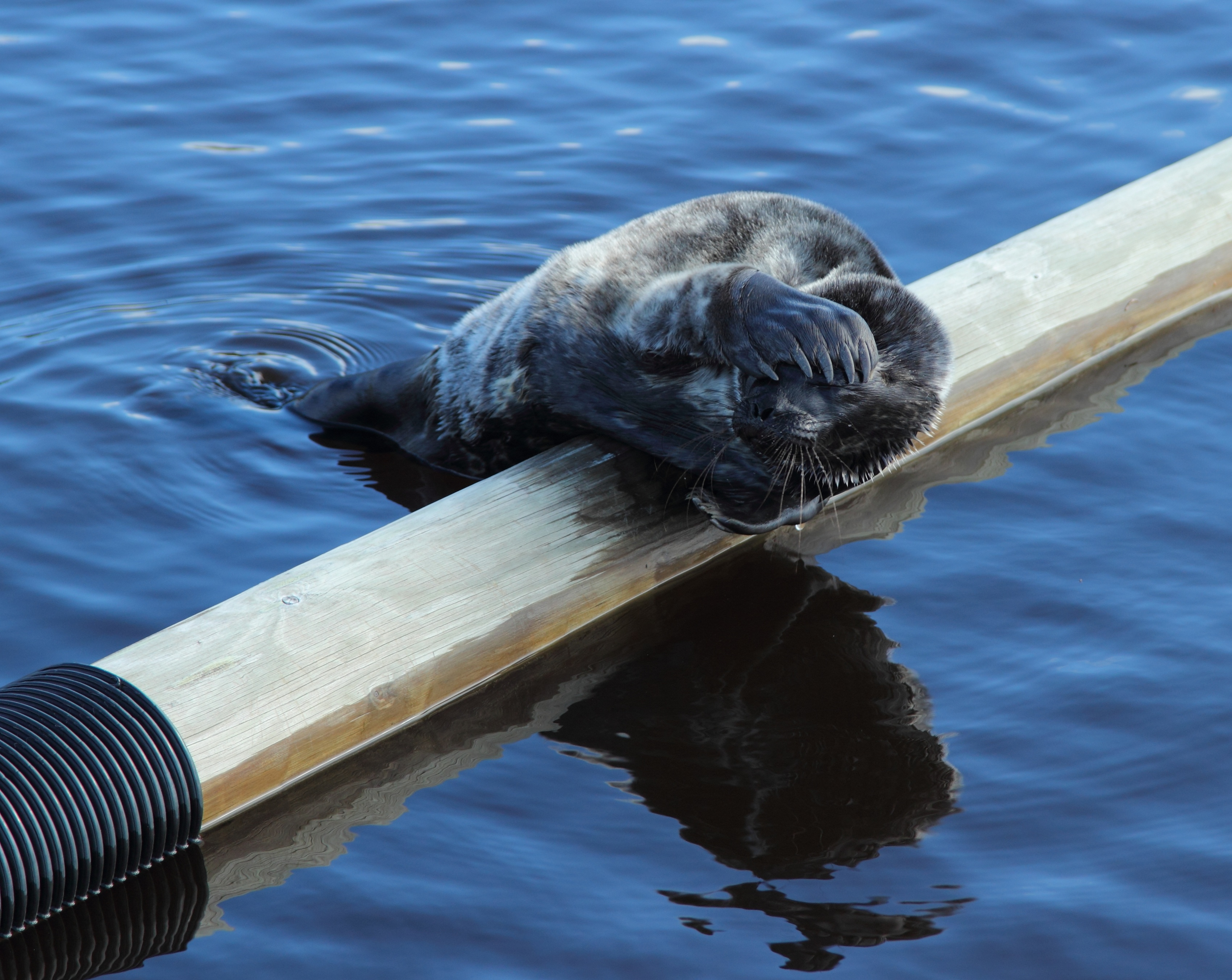 A young Ringed Seal (of the Gulf of Bothnia) (Pusa hispida botnica) in the Taskisenperä marina in Oulu, Finland.